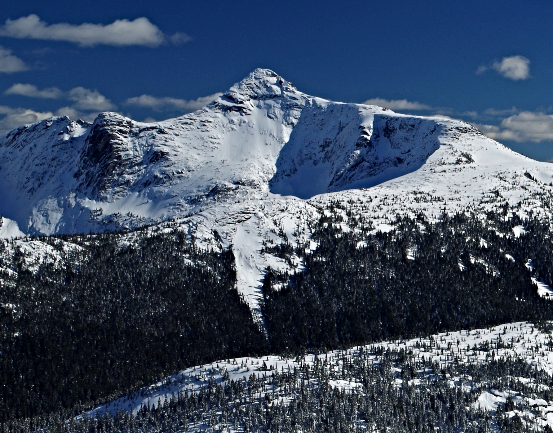 Needle Peak BC in winter seen from Iago Peak